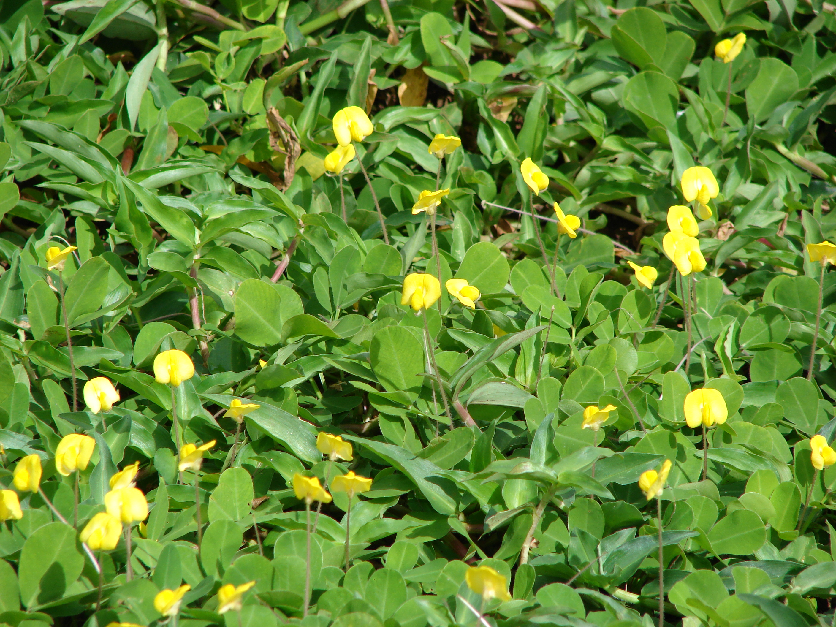 Arachis pintoi (flowers and leaves). Location: Oahu, Hoomaluhia Botanical Garden